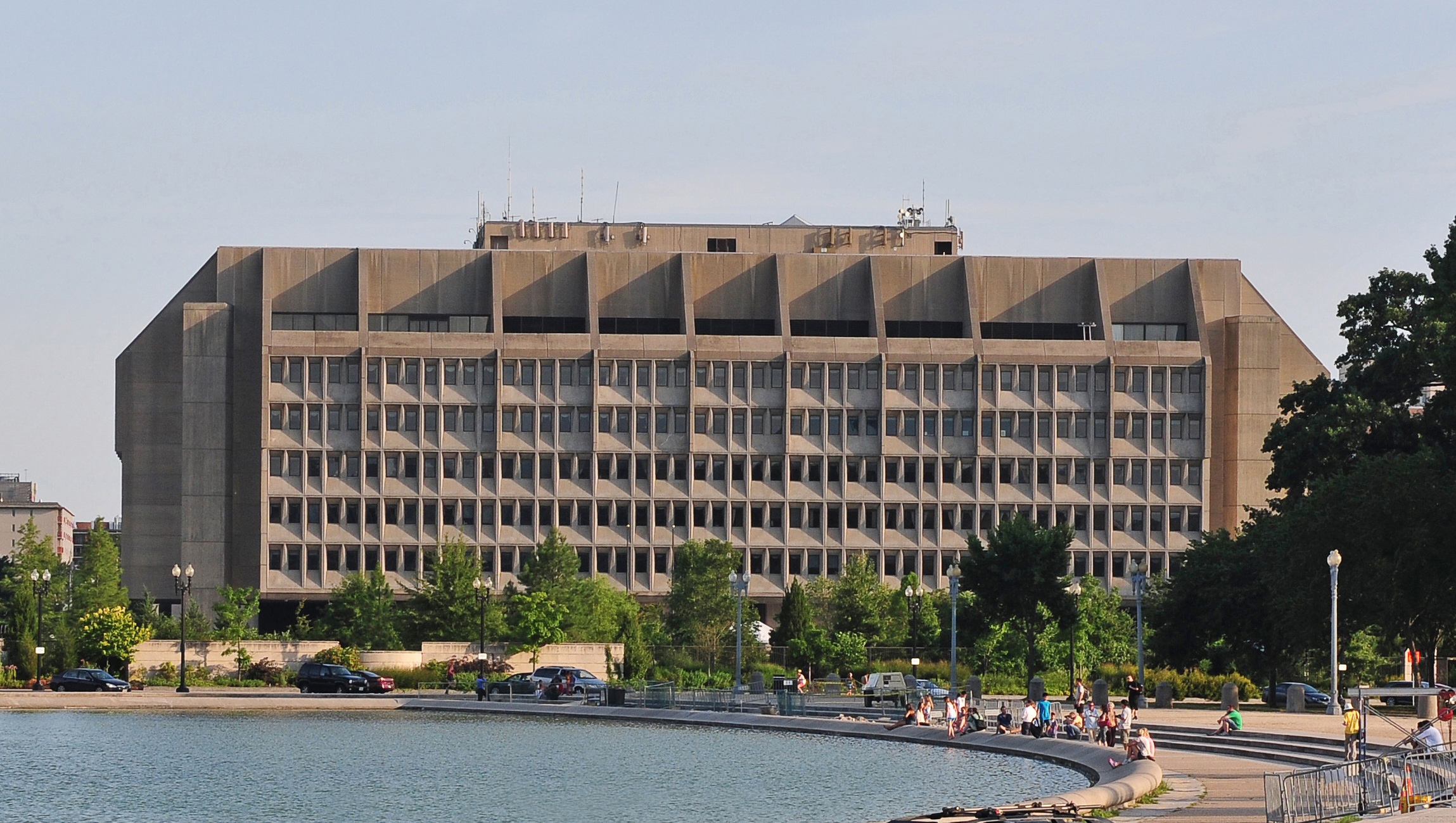 US Dept of Health & Human Services, Washington D.C. The making of this work was supported by Wikimedia Austria. For other files made with the support of Wikimedia Austria, please see the category Supported by Wikimedia Österreich.